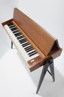 This is a restored Hohner Pianet N (version 2). It is distinguished from the version 1 by the black legs. This specimen requires US 110V supply voltage and was probably manufactured around 1975, close to the end of production for this keyboard.